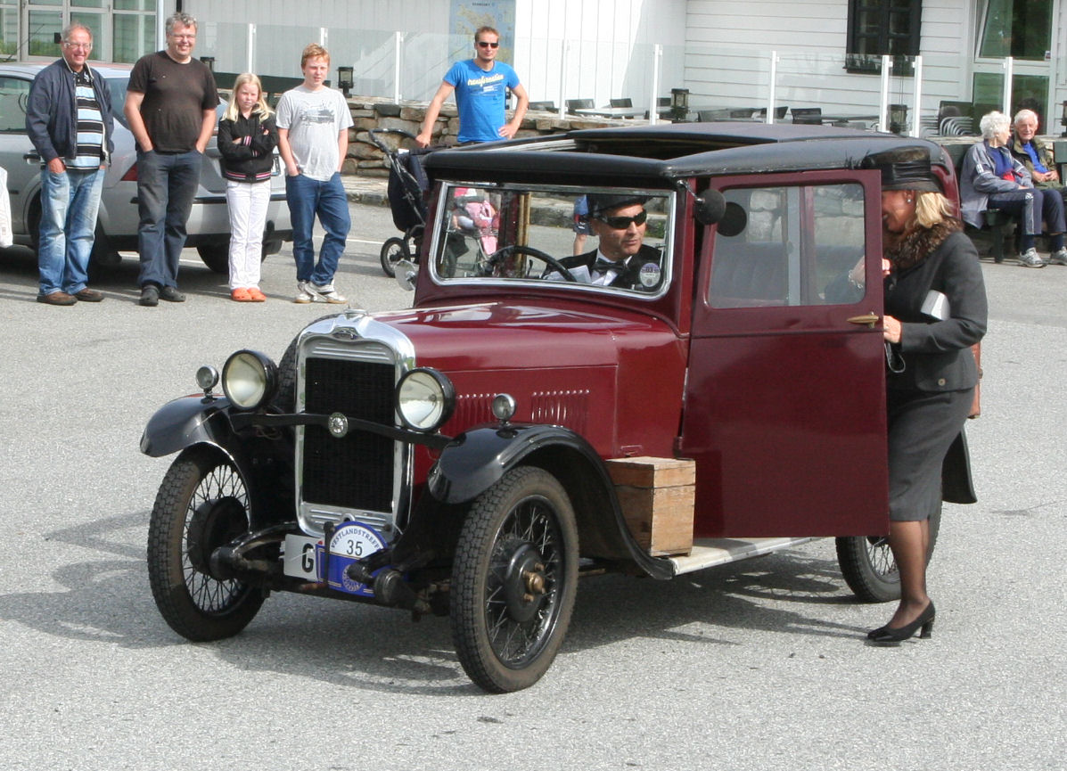 Captured at a Veteran-Car meeting on August 1, 2009 in Utstein, Norway. Kjartan was the owner at the time. He wears period attire and picks up lady companion dressed in style as well.